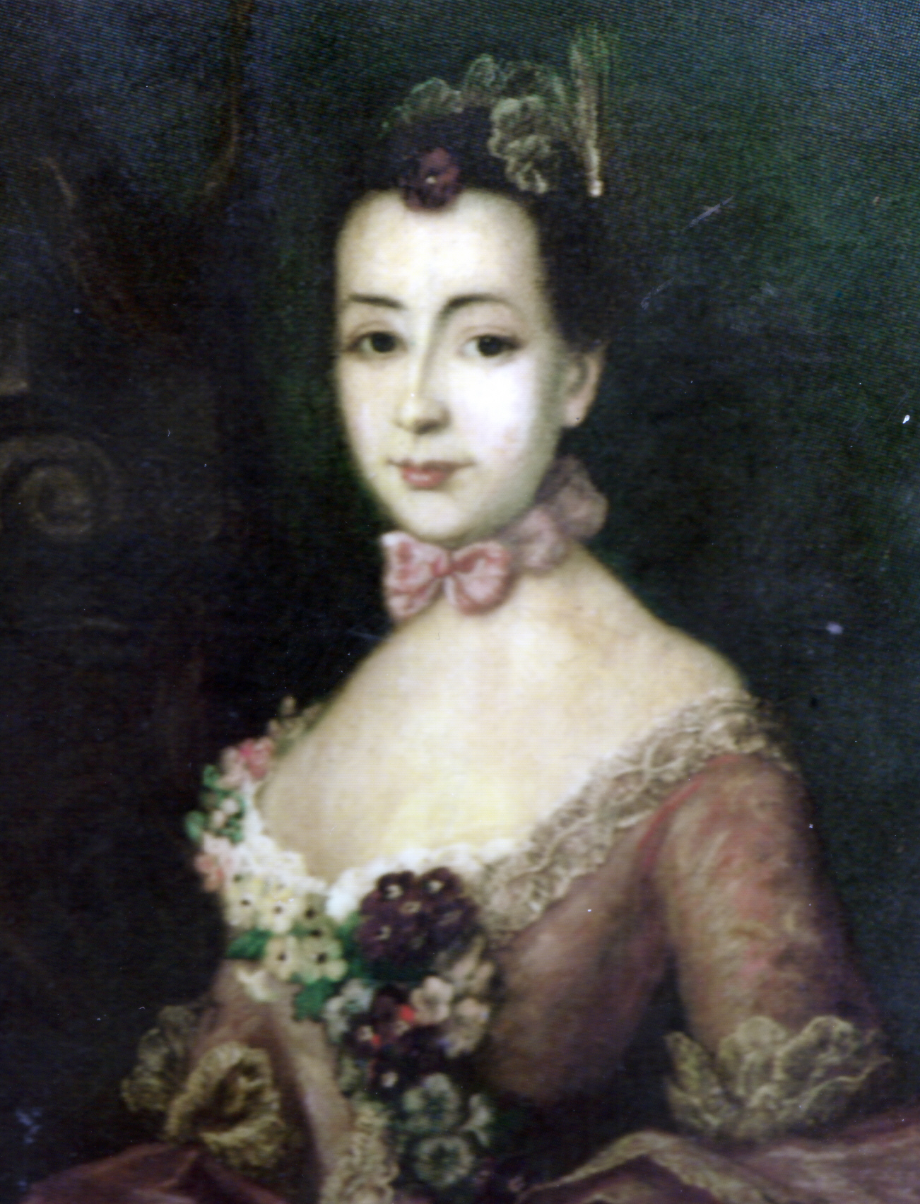 Portrait of Friederike Riedesel (1746-1808)